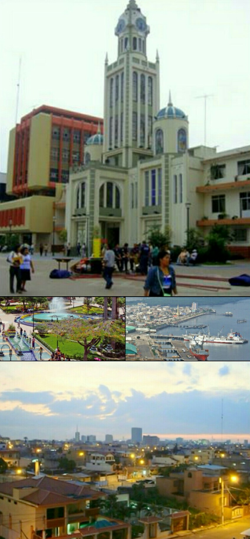 Machala's views from different places.